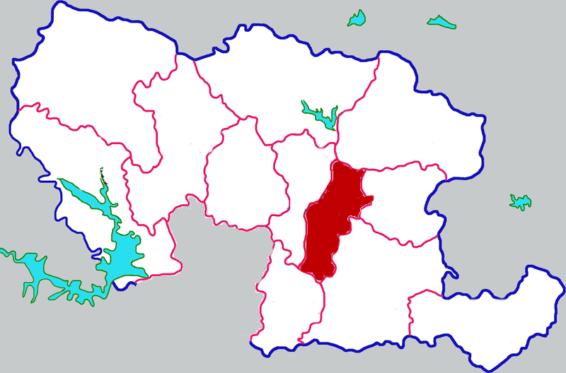 Location of Wancheng district in Nanyang city, China